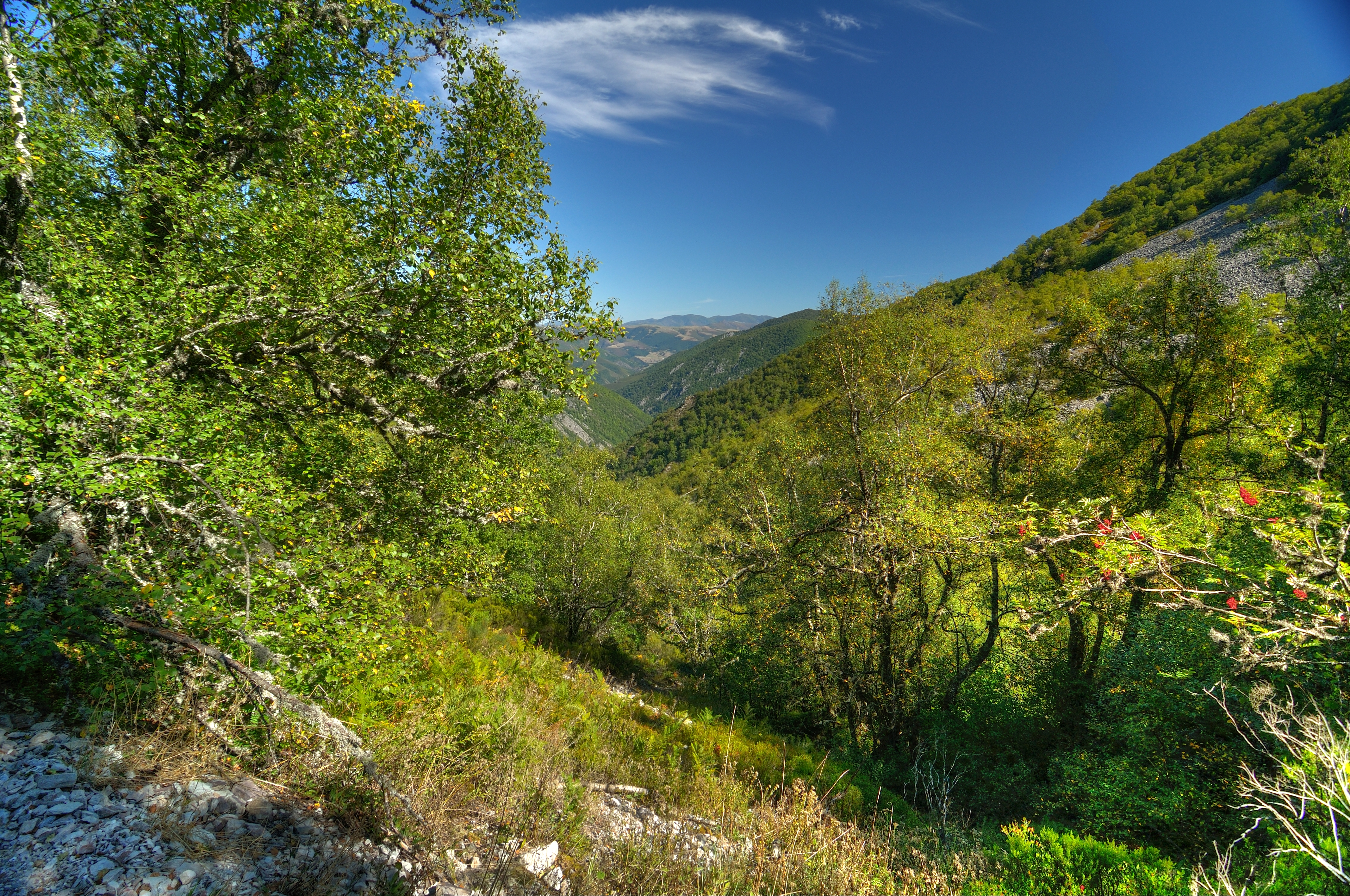 Biosphere reserve of Muniellos, in Cangas del Narcea, in Asturias, Spain.